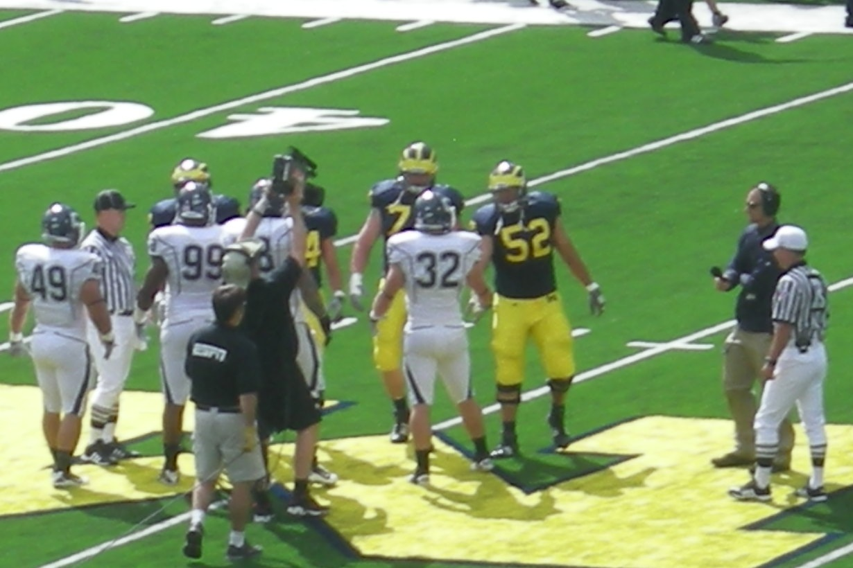 Photograph of the coin toss, taken during the Connecticut Huskies vs. Michigan Wolverines game on September 4, 2010.